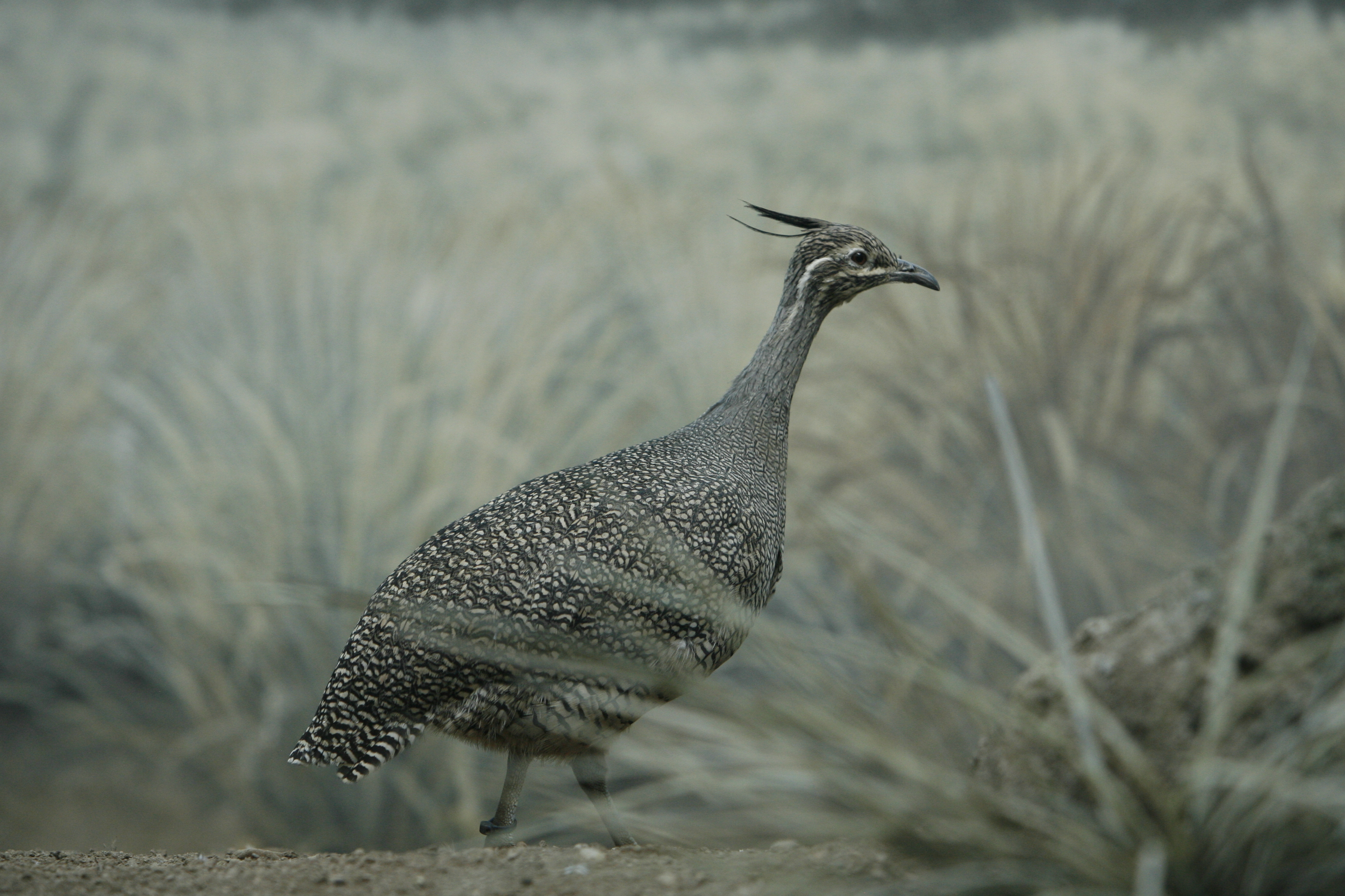 A crested tinamou at the bronx zoo.